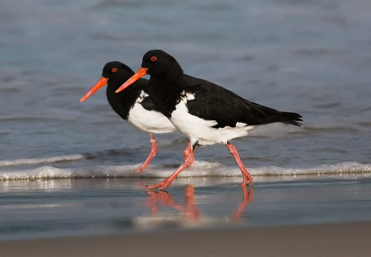 Pied Oystercatchers (Haematopus longirostris), Adventure Bay, Bruny Island, Tasmania, Australia Camera data Camera Canon EOS 400D Lens Canon EF 400mm f5.6L Focal length 400 mm Aperture f/5.6 Exposure time 1/4000 s Sensivity ISO 400